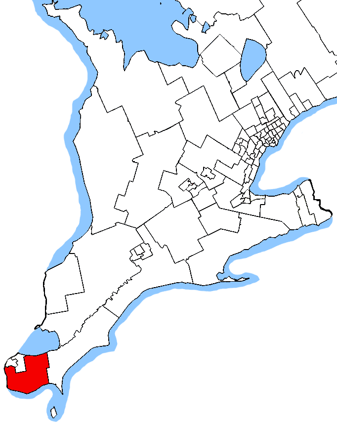 Map of the Essex electoral district. Based on Earl Andrew's maps, created by SimonP.